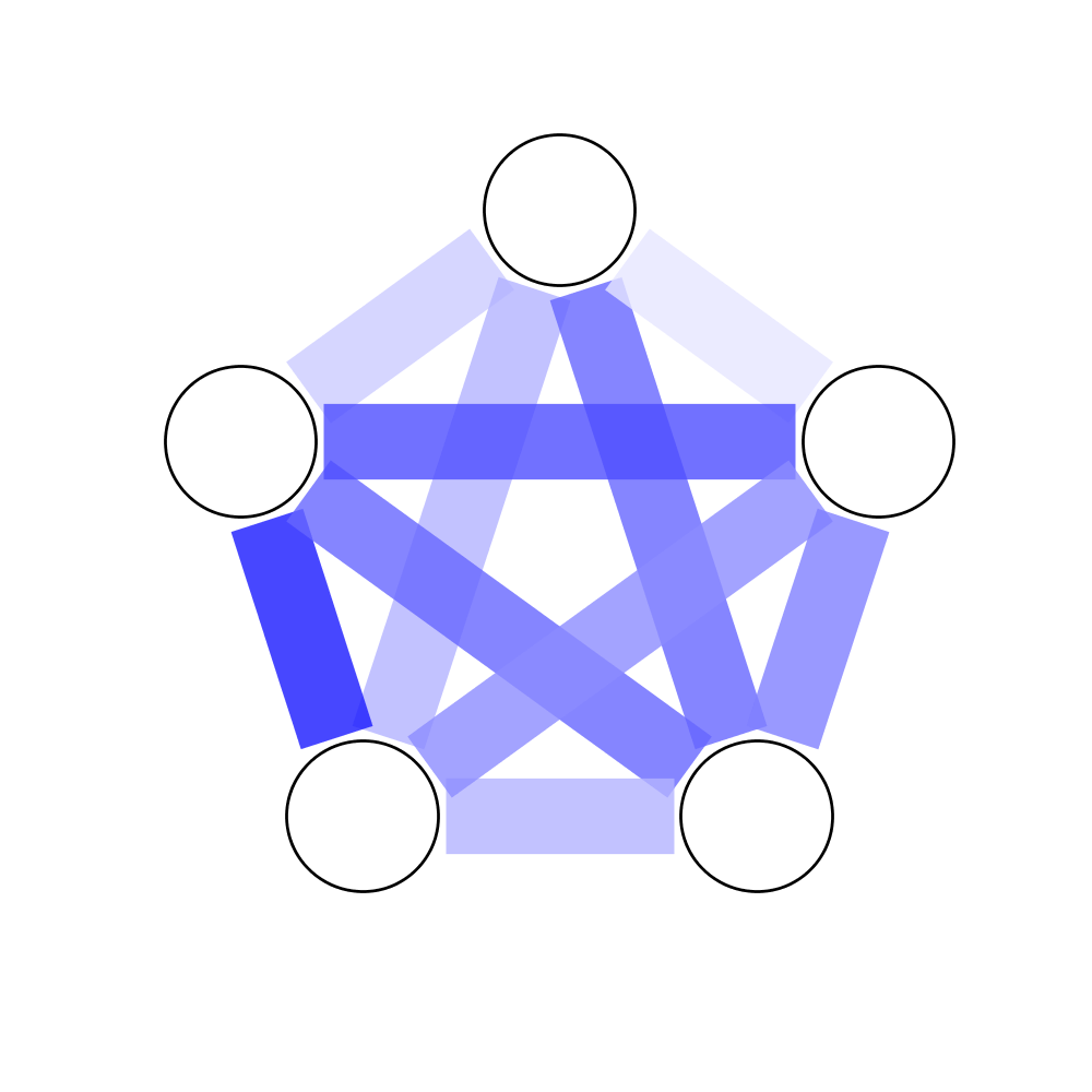 An illustration of Szemerédi's regularity lemma